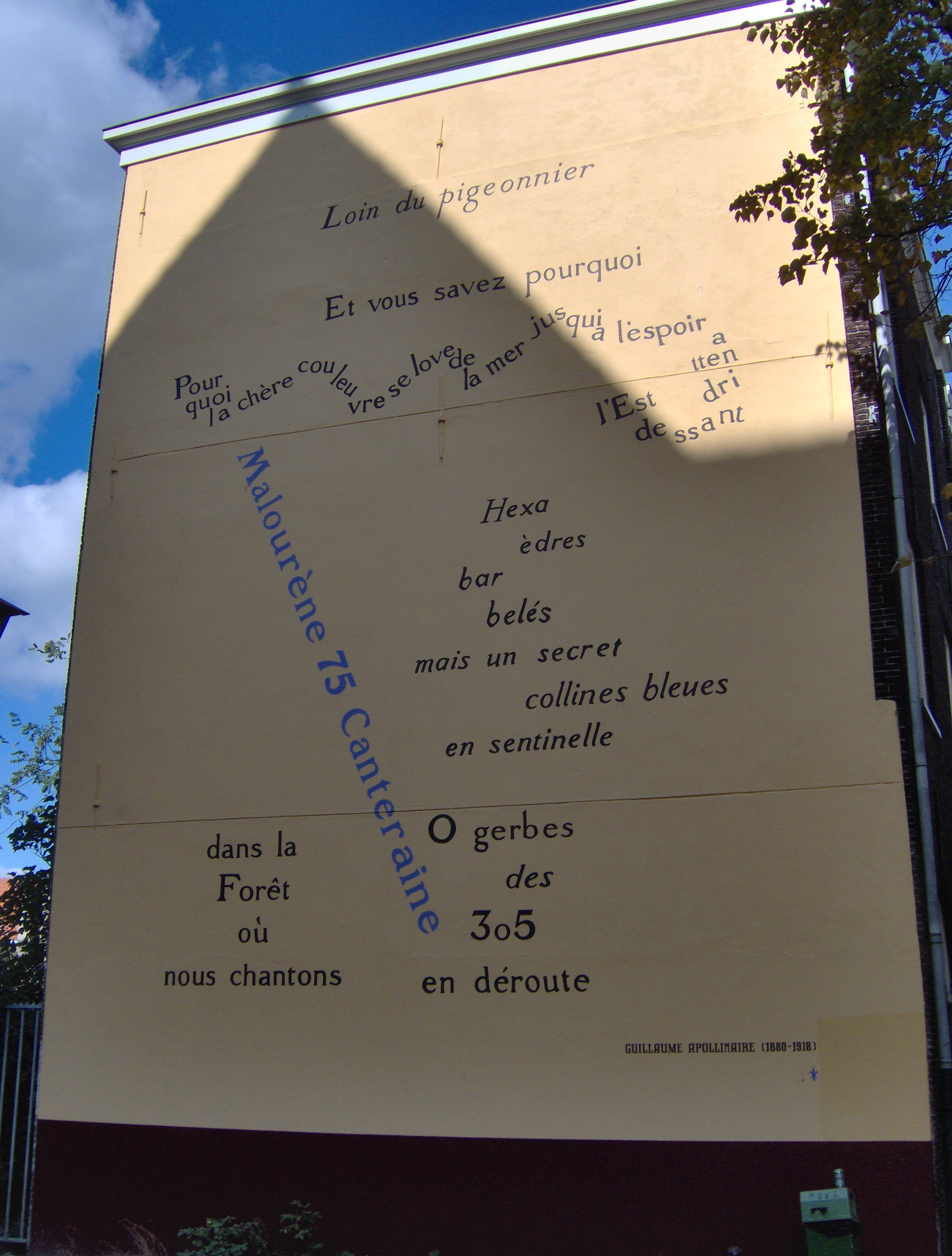 The poet Loin du pigeonnier (Far from the dovecote) of the French poet Guillaume Apollinaire on a wall of a building at the Middelstegracht in Leiden, The Netherlands